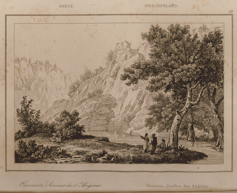 The_cave_at_the_sources_of_Angitis_river